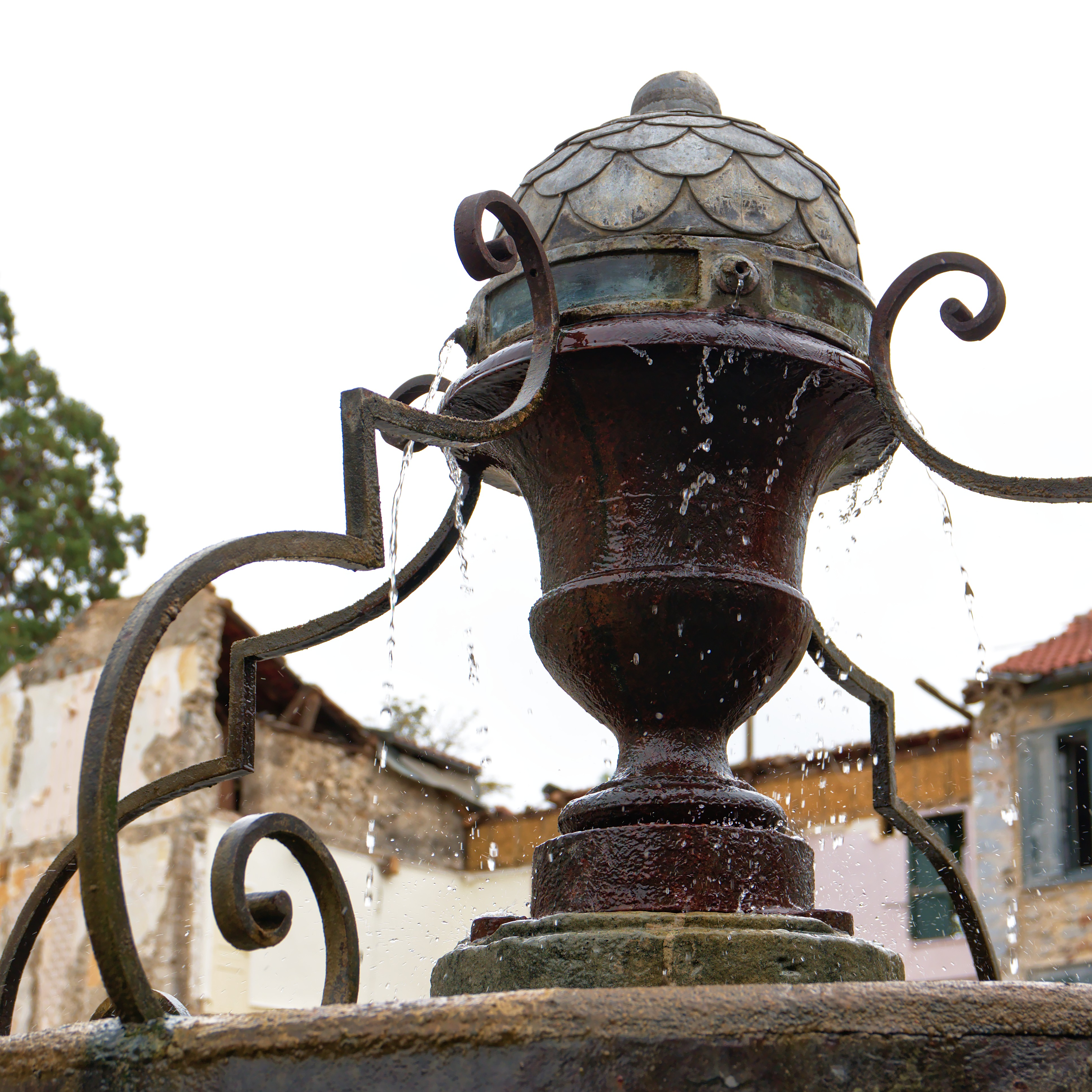 Fountain of Aspet, Haute-Garonne, France.